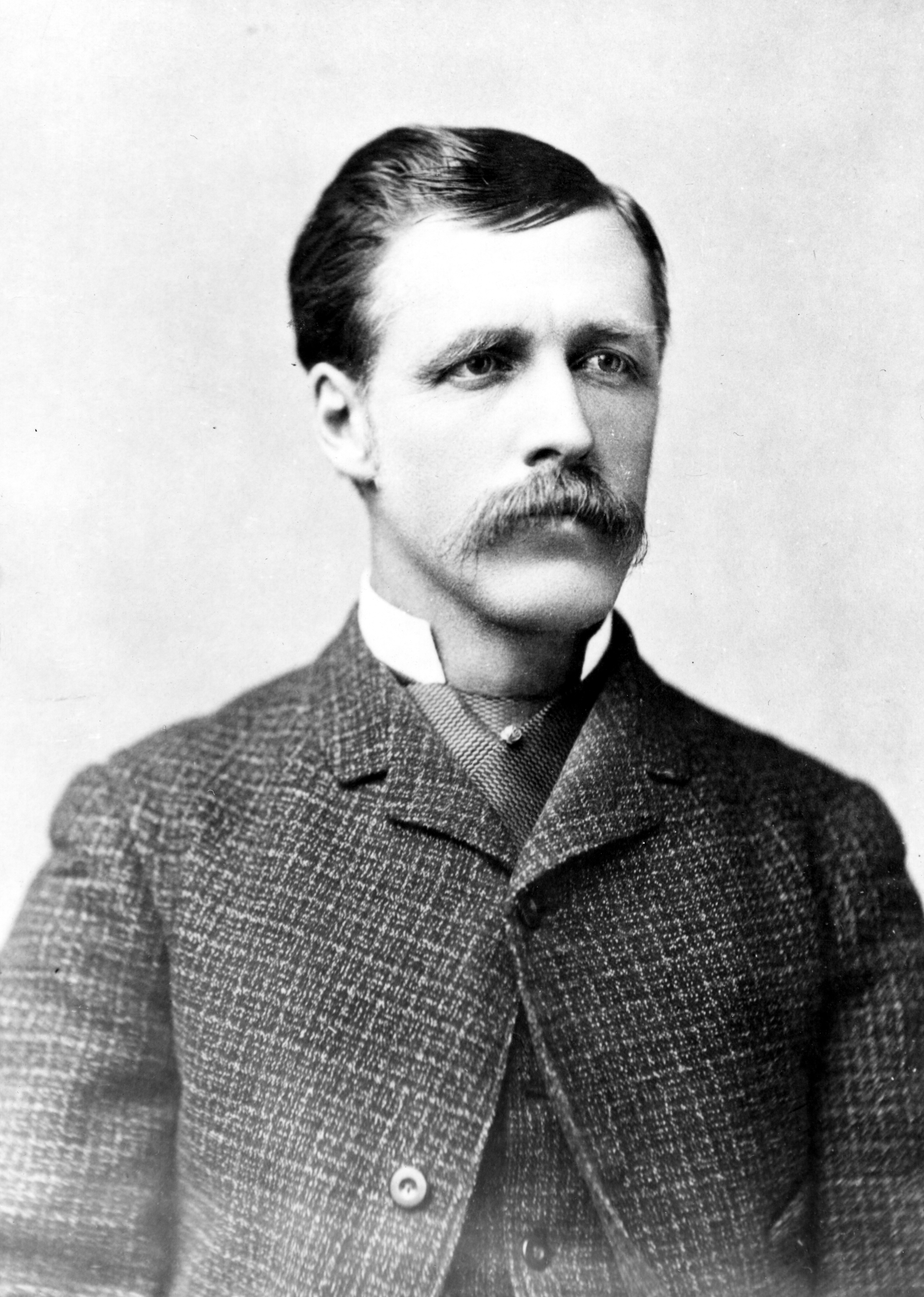 William Henry Jackson, pioneer photographer, in his youth; considerably later in his life.